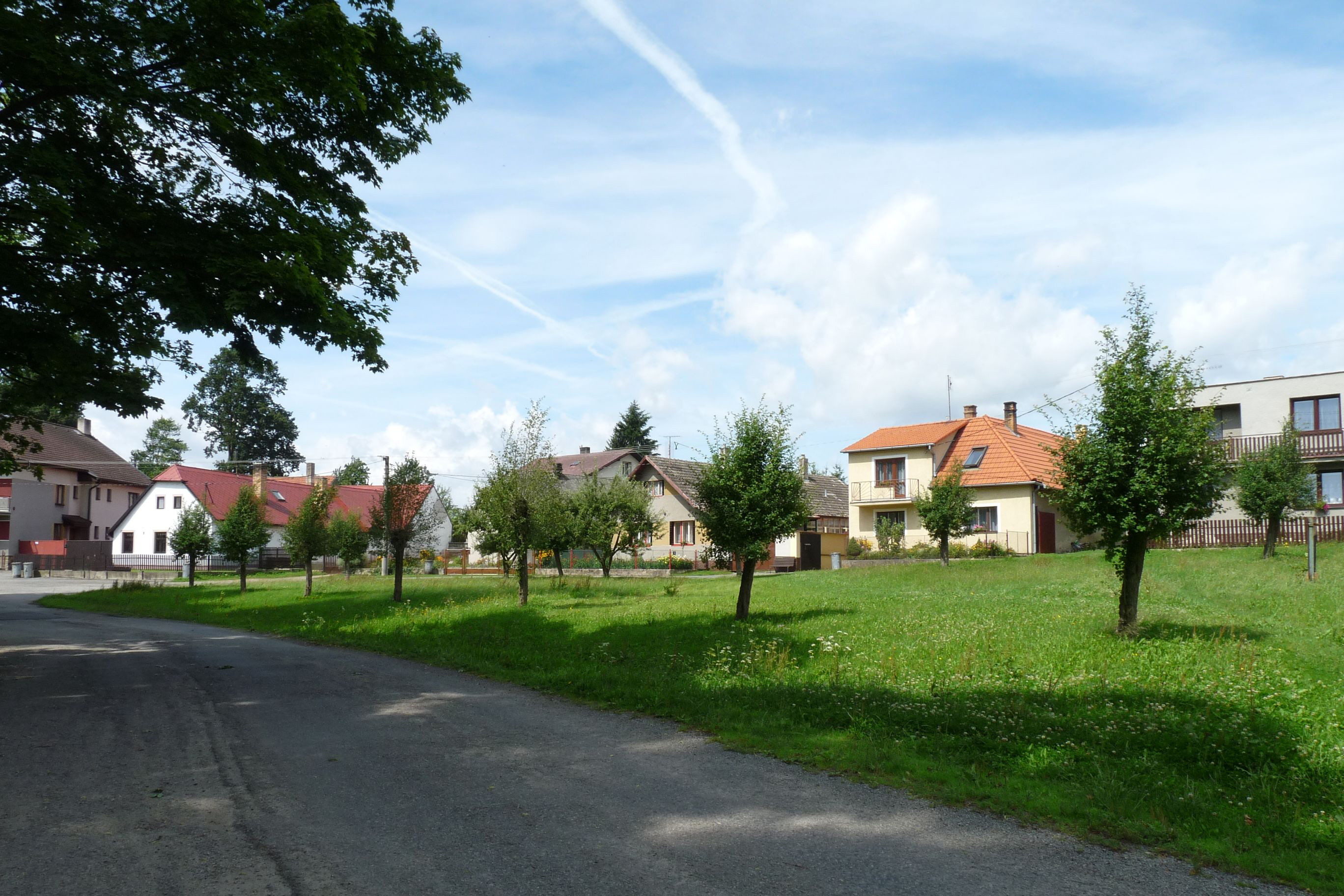 Village green in Proseč-Obořiště, Pelhřimov District, Czech Republic.